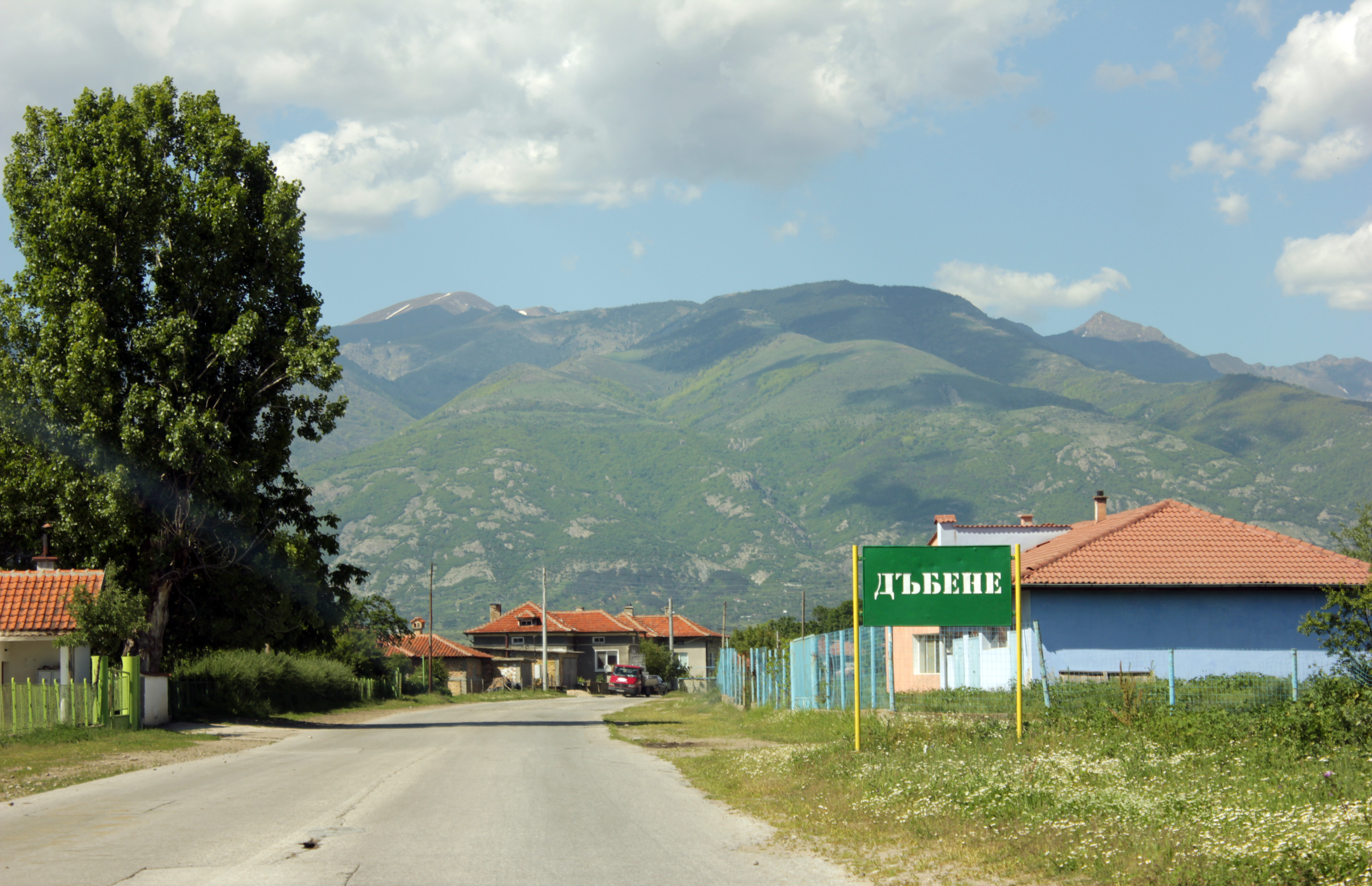 Entrance to Dabene Village